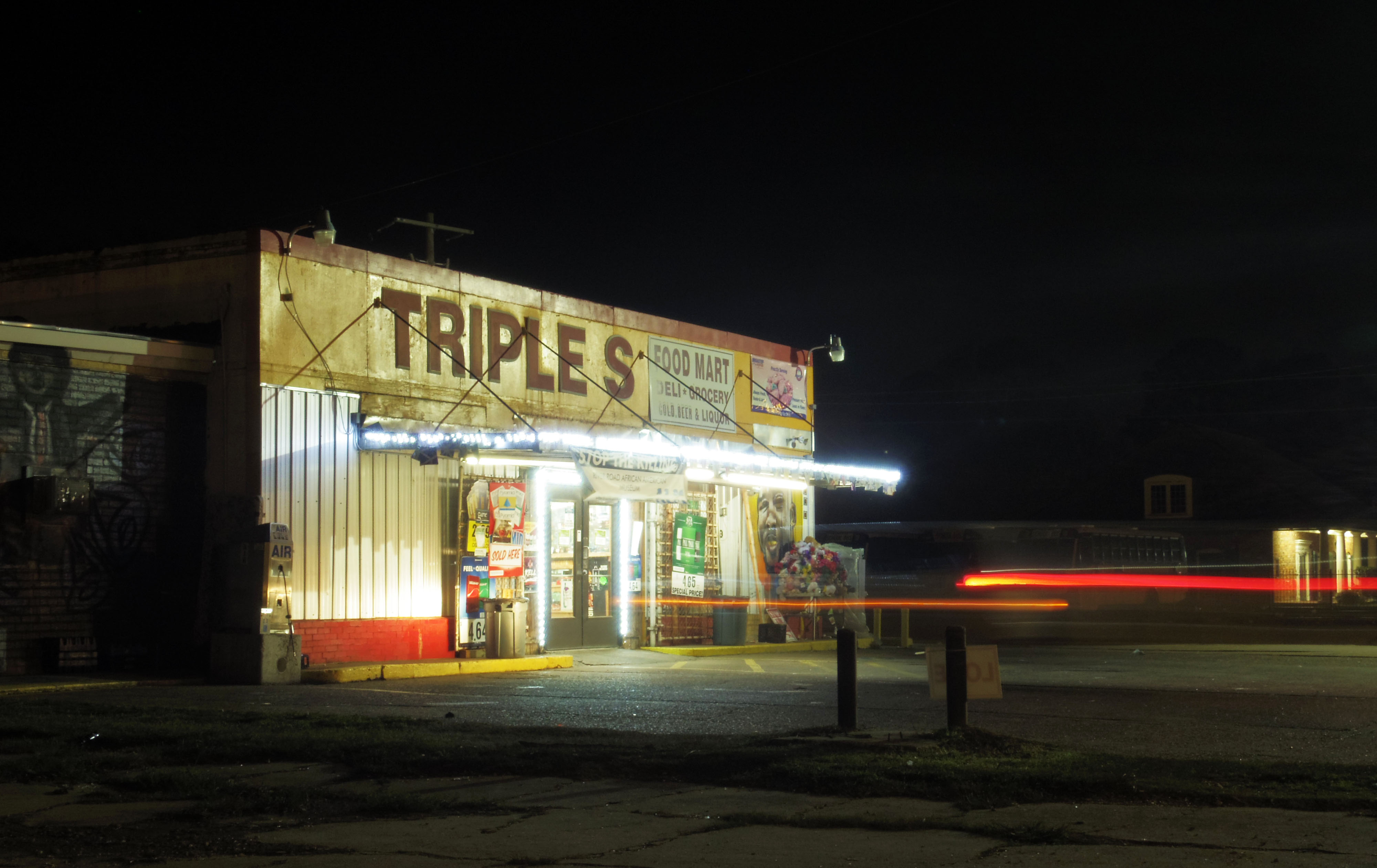 The Triple S Food Market in Baton Rouge, Louisiana, where Alton Sterling was killed by the Baton Rouge Police in July 2016, which sparked protests against police brutality.